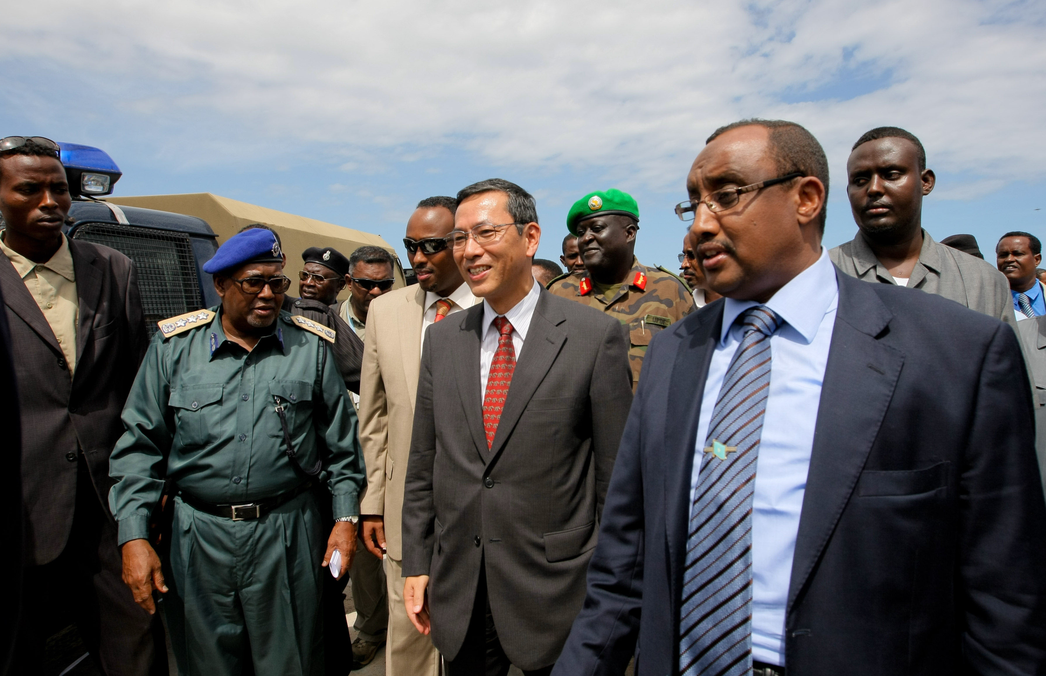 From right to left, Somali Prime Minister Abdiweli Mohamed Ali; African Union Mission in Somalia (AMISOM) Force Commander Lt. Gen Andrew Gutti (background); Japanese Ambassador to Kenya Toshihisa Takata and Somali Police Commissioner Sharif Sekhuna Mayi walk together 7 May 2012, ahead of cutting ribbon during a handover ceremony of equipment donated by the Government of Japan through the United Nations Political Office for Somalia (UNPOS) Trust Fund to support the rebuilding of the SPF in the Somali capital Mogadishu. The equipment included a motor transport fleet of 15 pick-up trucks, two troop personnel carries and two ambulances, 1.800 ballistic helmets and sets of handcuffs, over 1,000 VHF radio handsets, and musical instruments for the police band. AU-UN IST PHOTO / STUART PRICE.